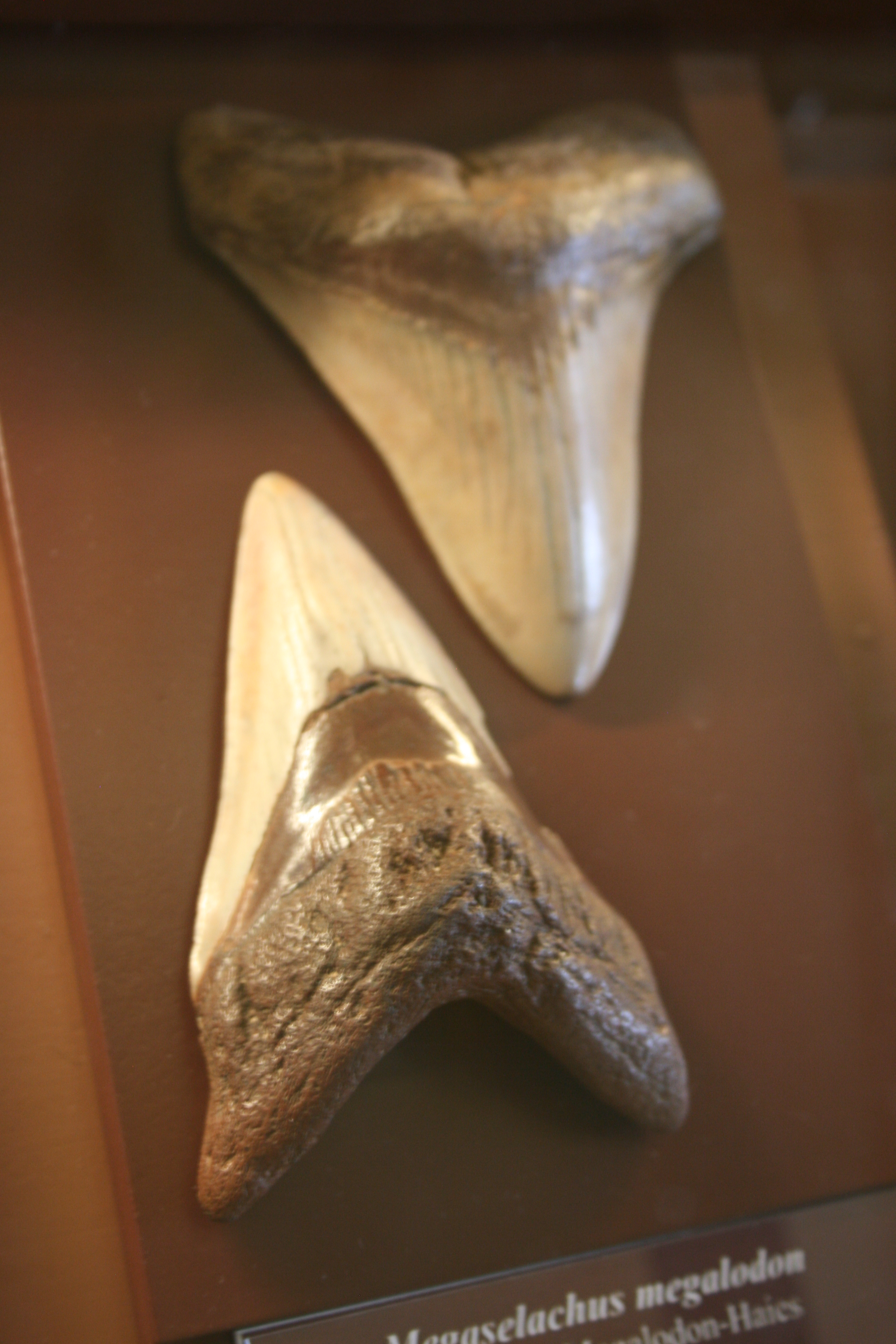 Teeth of a megalodon shark in the NHM Vienna